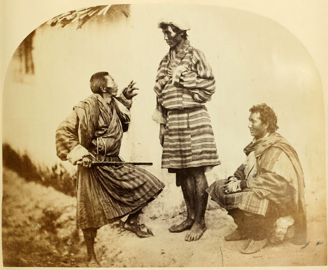 A group of Bhutanese chiefs of Tibetan origin.Circa 1860's.